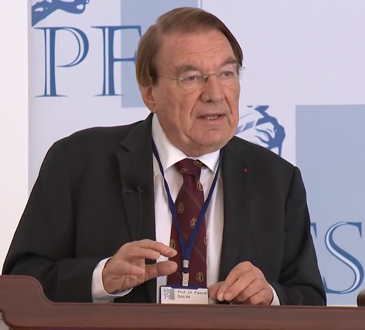 Pascal Salin On Understanding France and French Intellectual (PFS 2018)